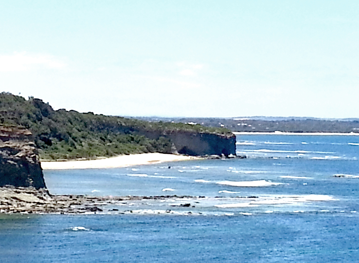 The Caves Beach, Inverloch, Victoria, Australia